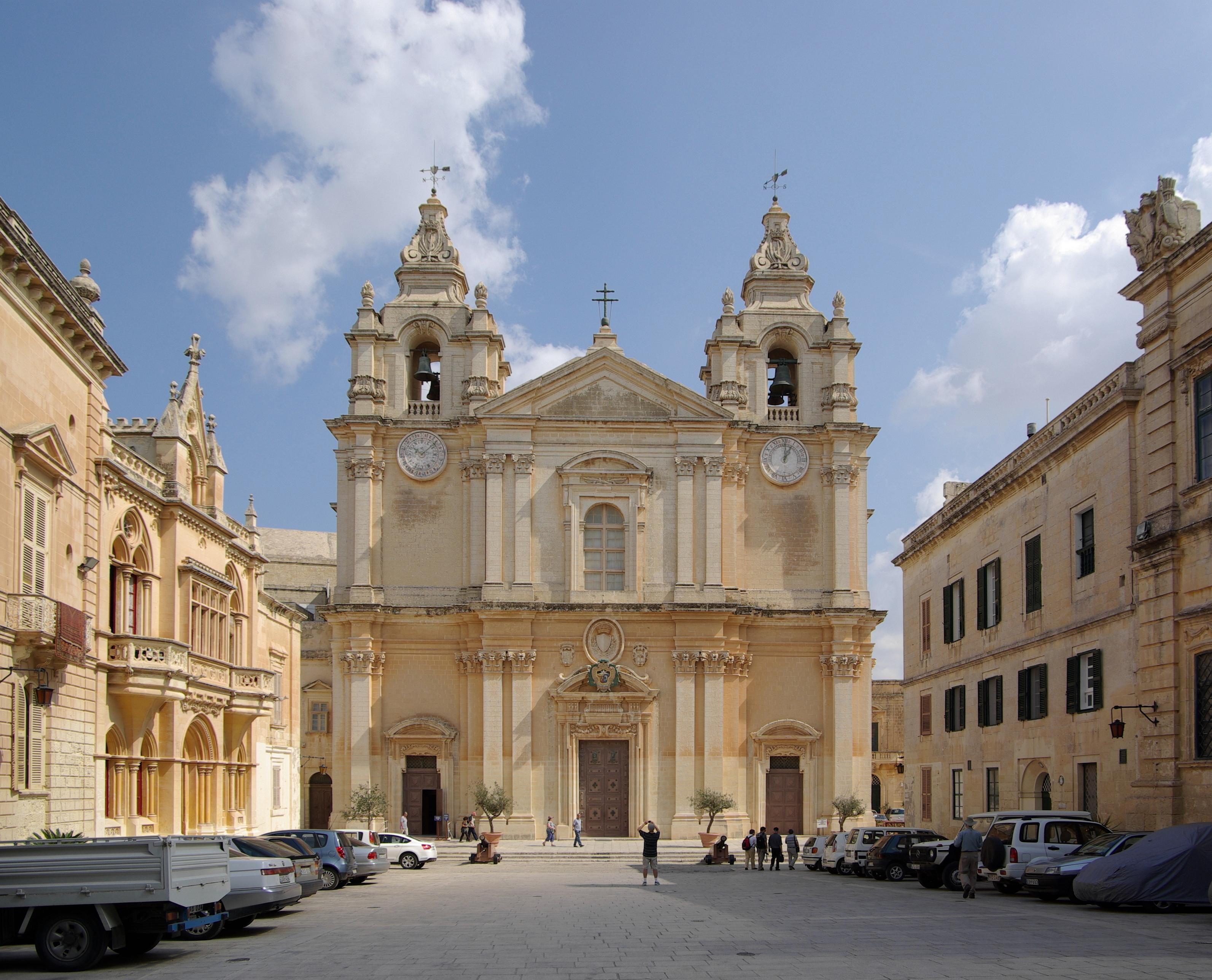 Malta, Mdina, Kathedrale St. Paul